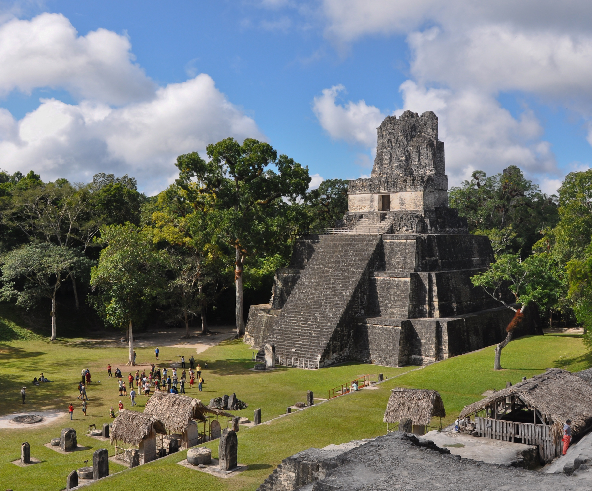 The Temple of the Masks mostly known as Tikal Temple II at the Maya archaeological site of Tikal in the Petén Department of northern Guatemala.